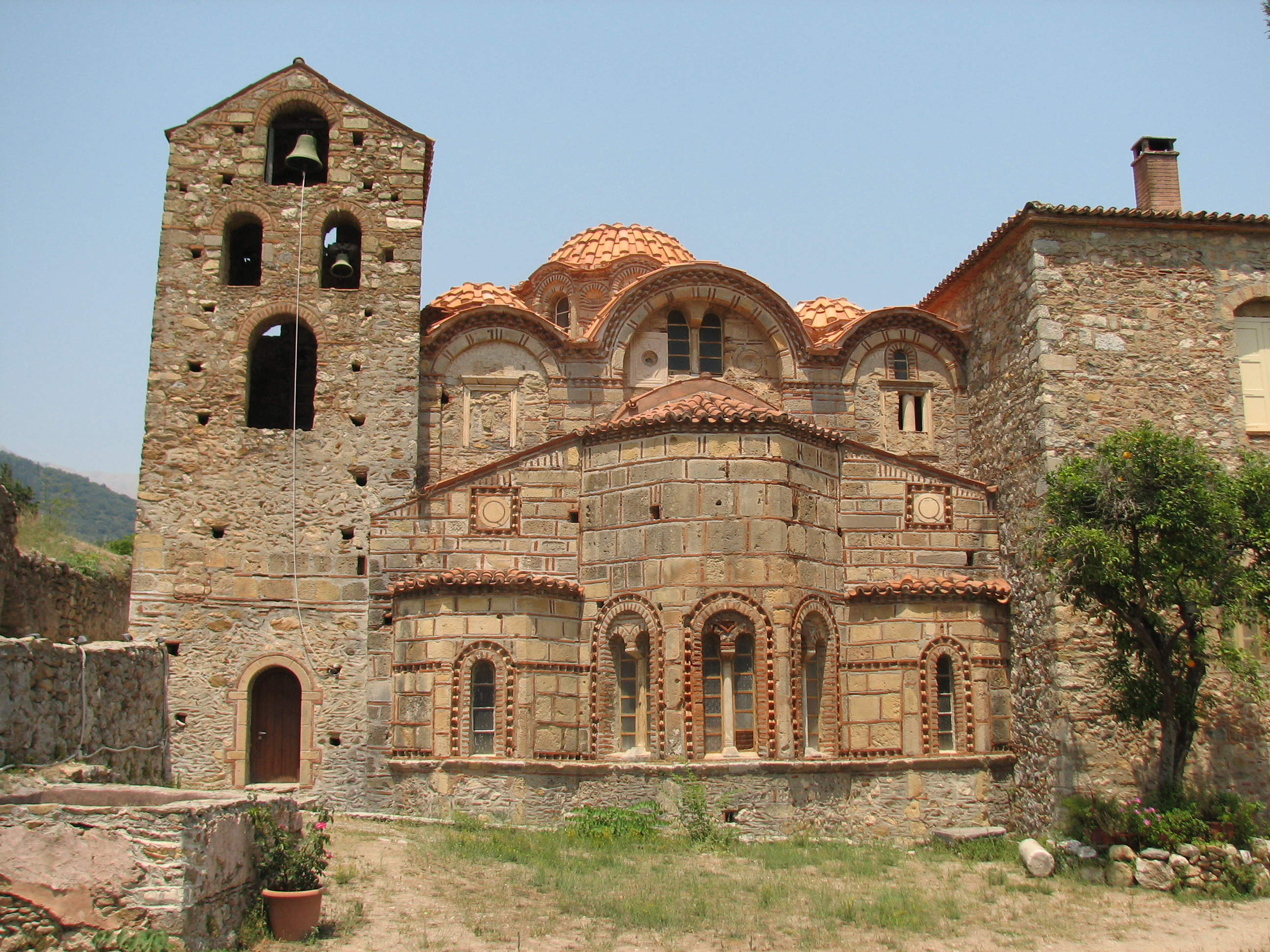 Byzantine city of Mystras,church of saint Demetrios